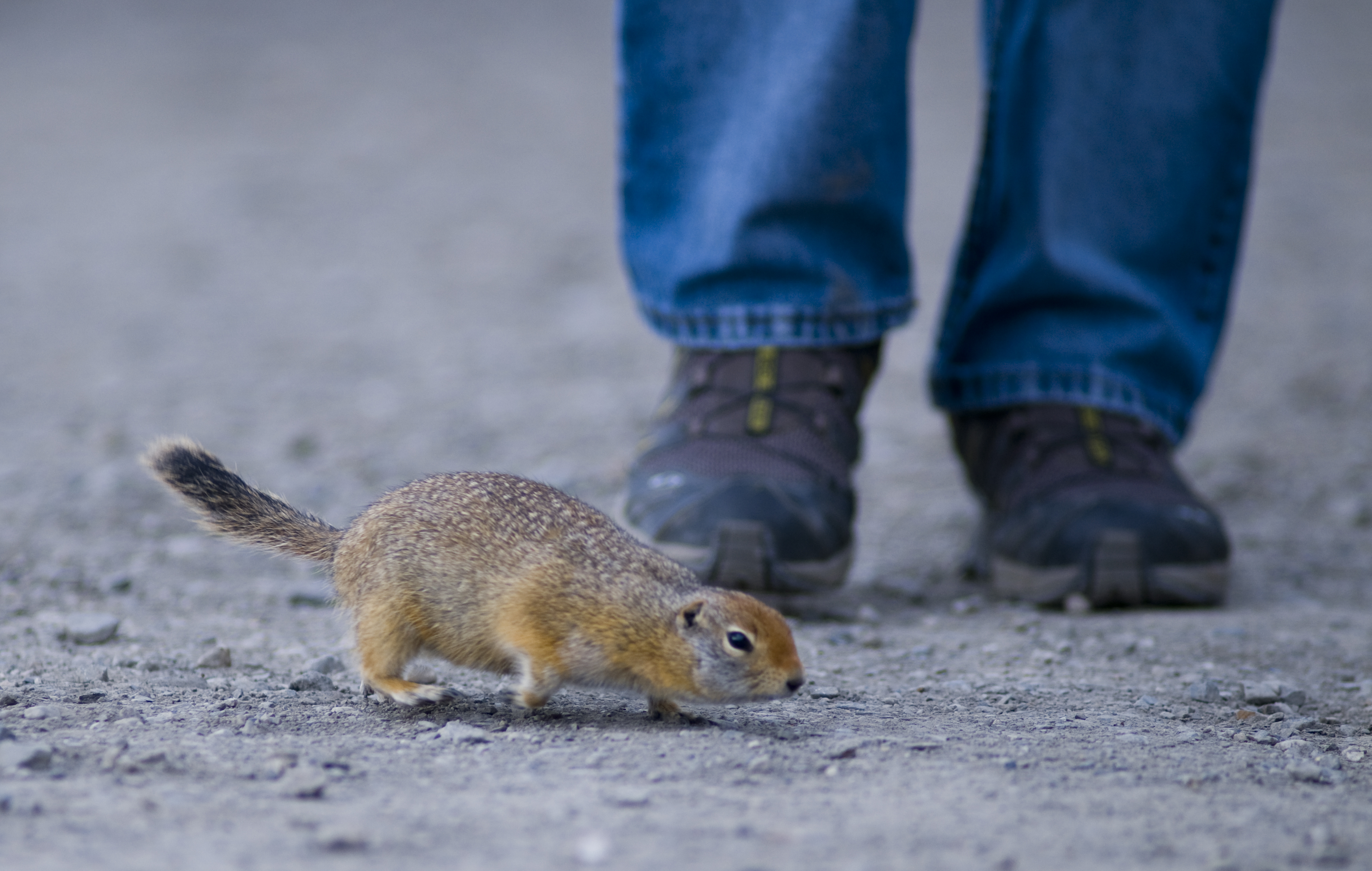 (NPS Photo/Kent Miller)